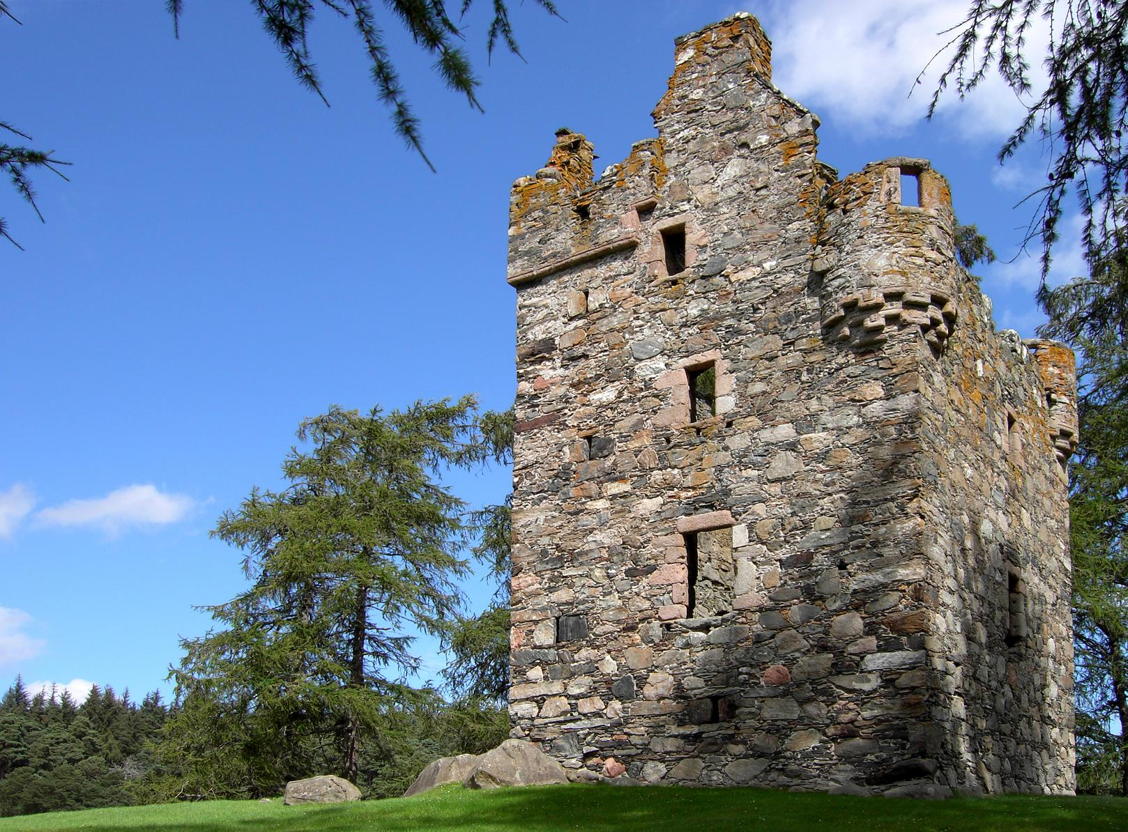 northwest view.